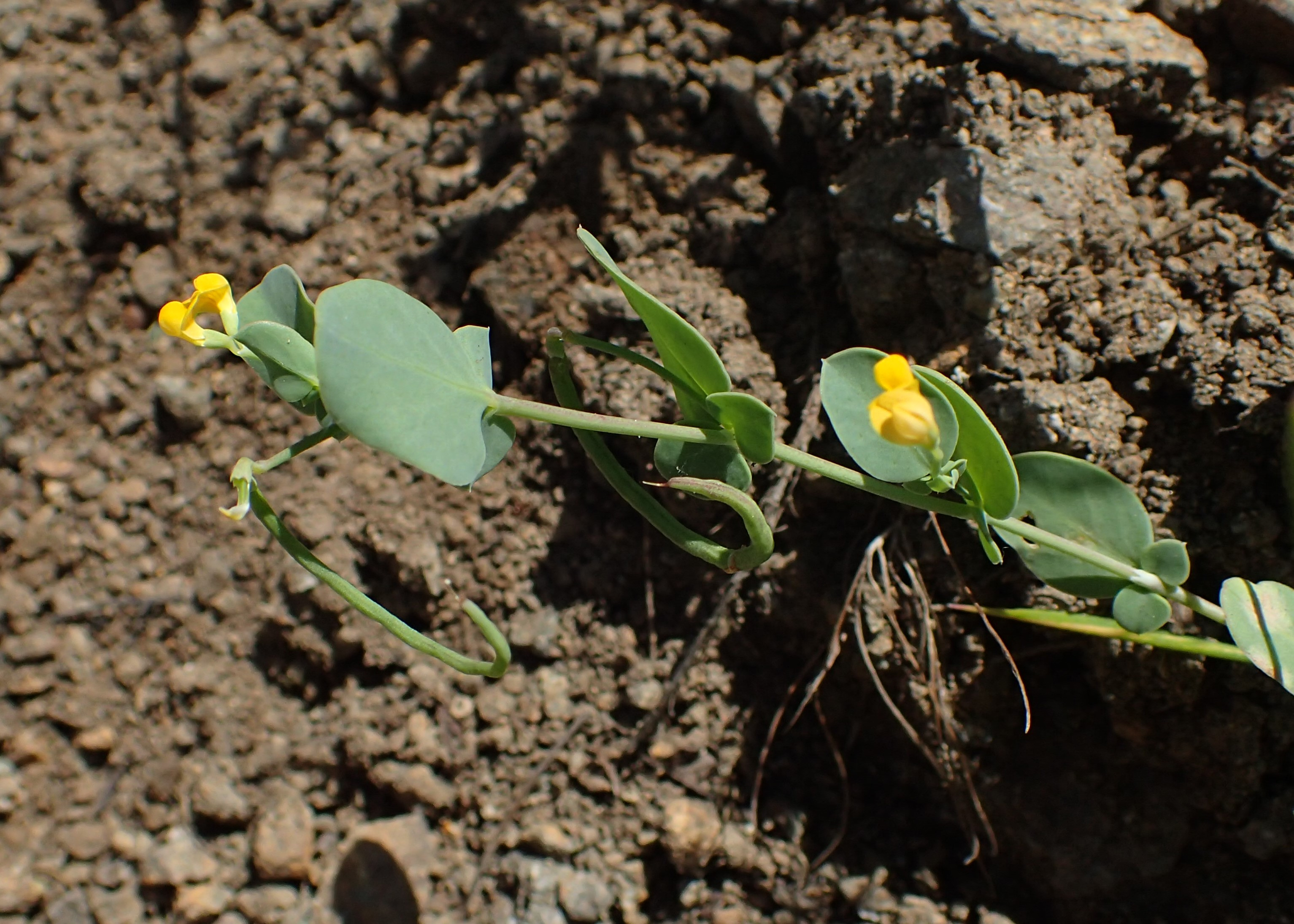 Coronilla scorpioides in Karahunj, Armenia